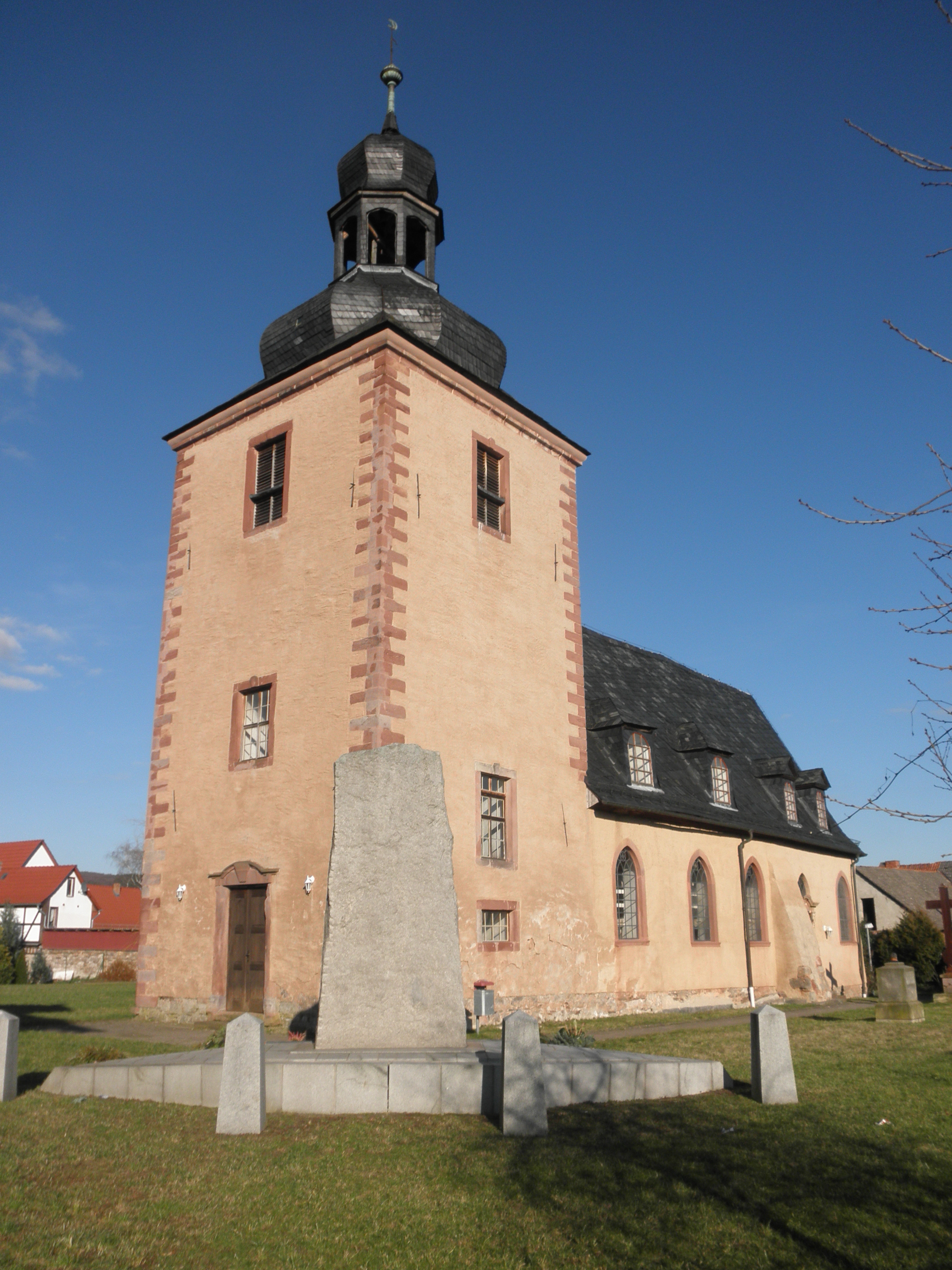 Church in Rottleberode in Sachsen-Anhalt